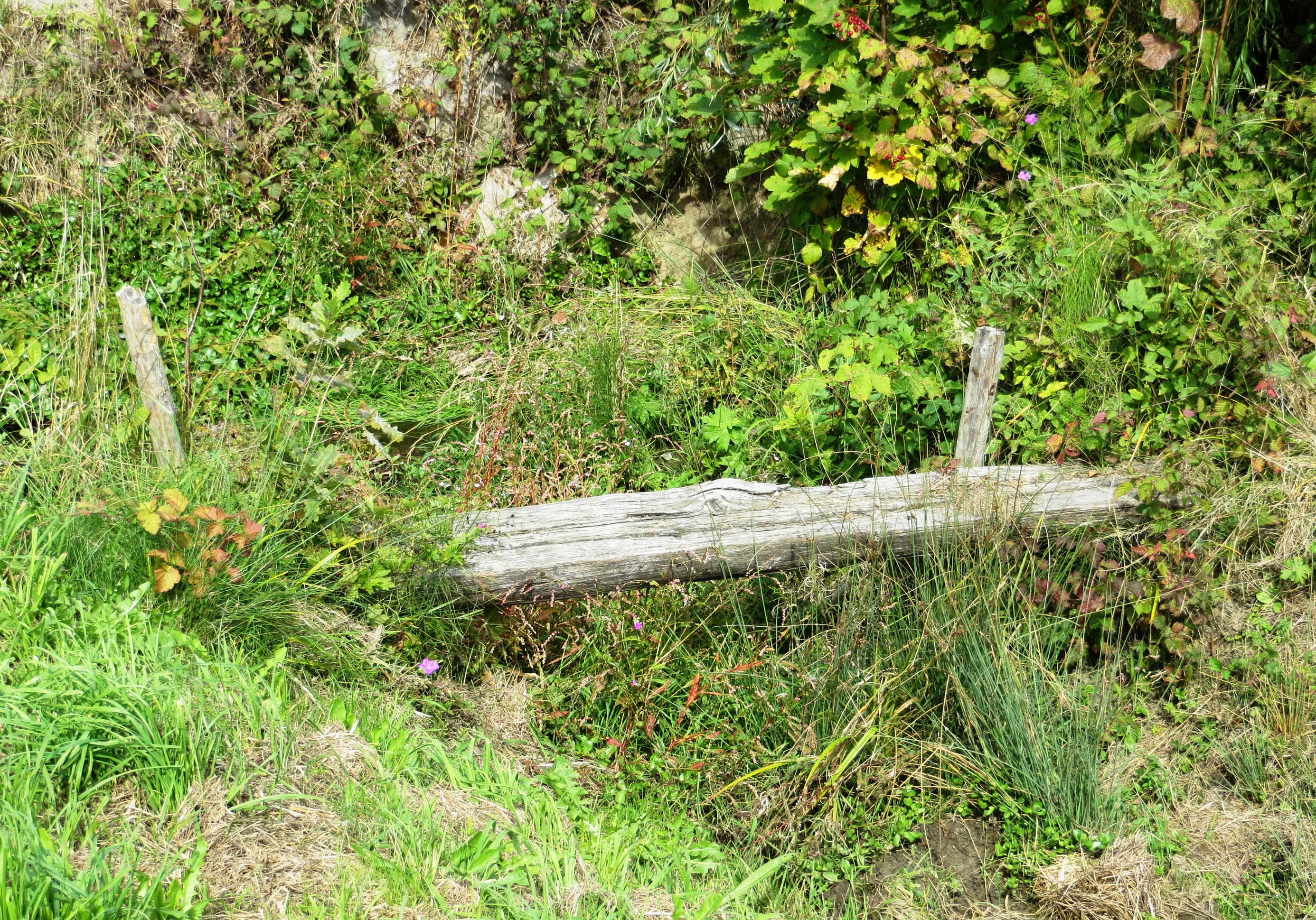 Small bridge between a field and road in Pangršica, Municipality of Kranj, Slovenia